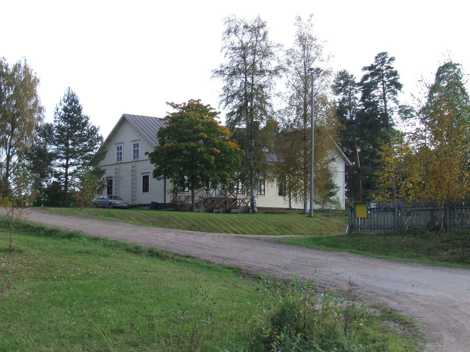 The old school building of Reitkalli in Hamina, Finland